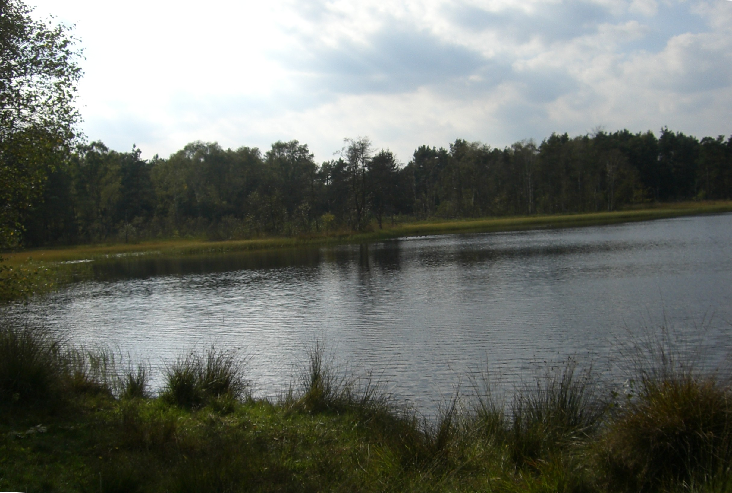 Ahlftener Flatt, Lake near Soltau